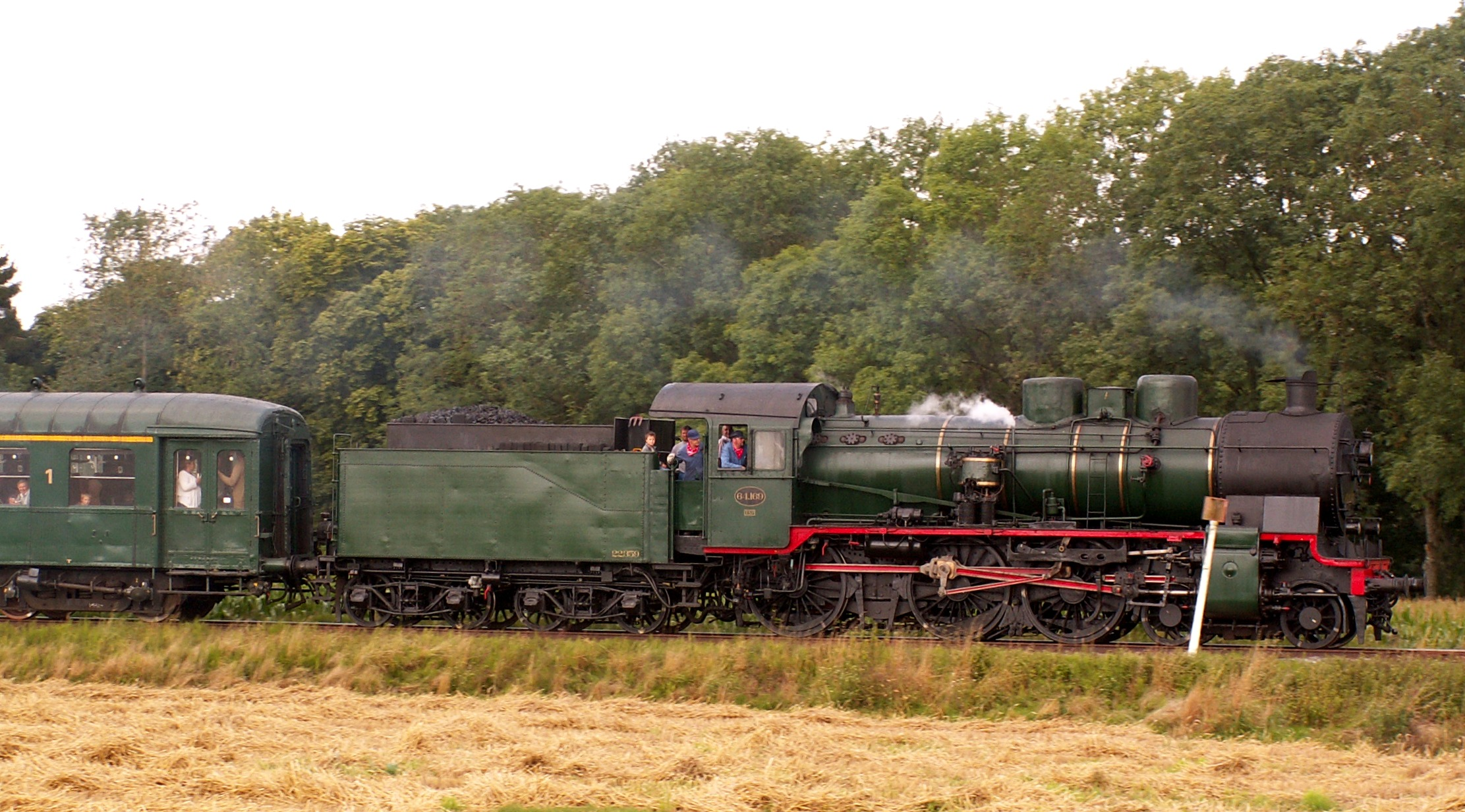 64.169 Steamer of the Belgian heritage Railway PFT (Patrimoine Ferroviaire et Tourisme) as seen in Gemenne near Ciney on the touristic line "Chemin de fer du Bocq" on 2011-08-15. This is in fact a former prussian P8 locomotive, used by the romanian railways after WW2. PFT has bought it in the early 2000. After being refitted and painted in Belgian livery at a romanian steam workshop (Belgium has also had ex-prussian P8 under the 64.xxx series taken as compensation for war damage after WW1), and after exepriencing many administrative problems, this lok has finally reached Belgium in may 2007. See [1]